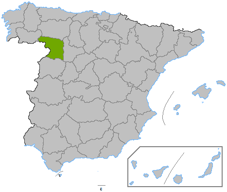 Location of the province of Zamora, in Spain. Basado en: ProvPont.jpg Source: Designed by Satesclop. Original picture, designed by Sobreira.